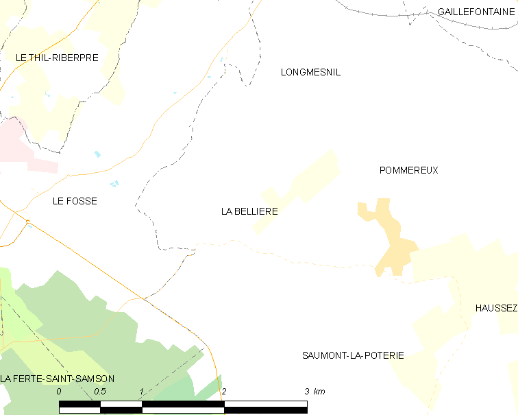 Map of French municipality La Bellière